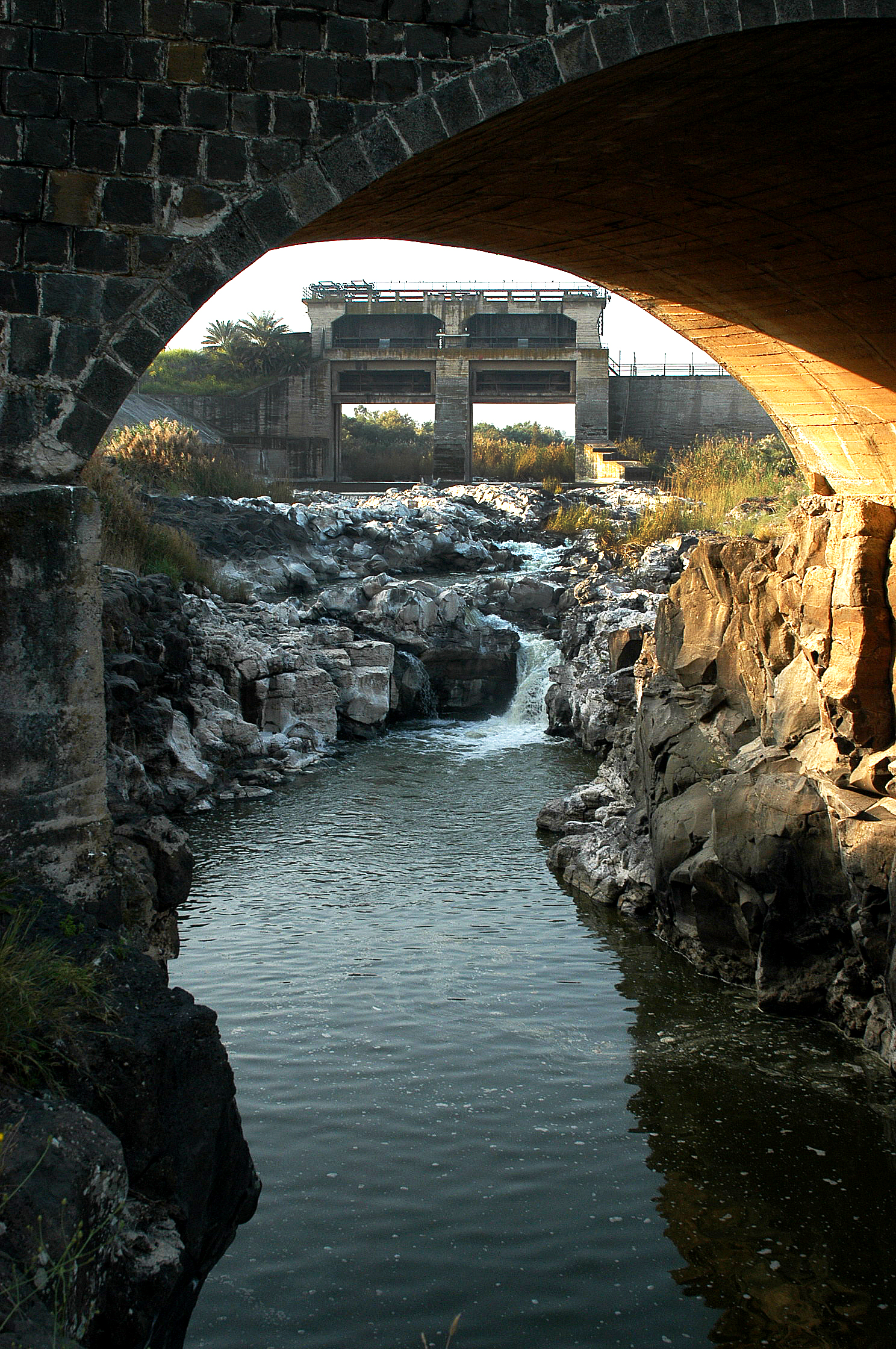 first power station in Israel